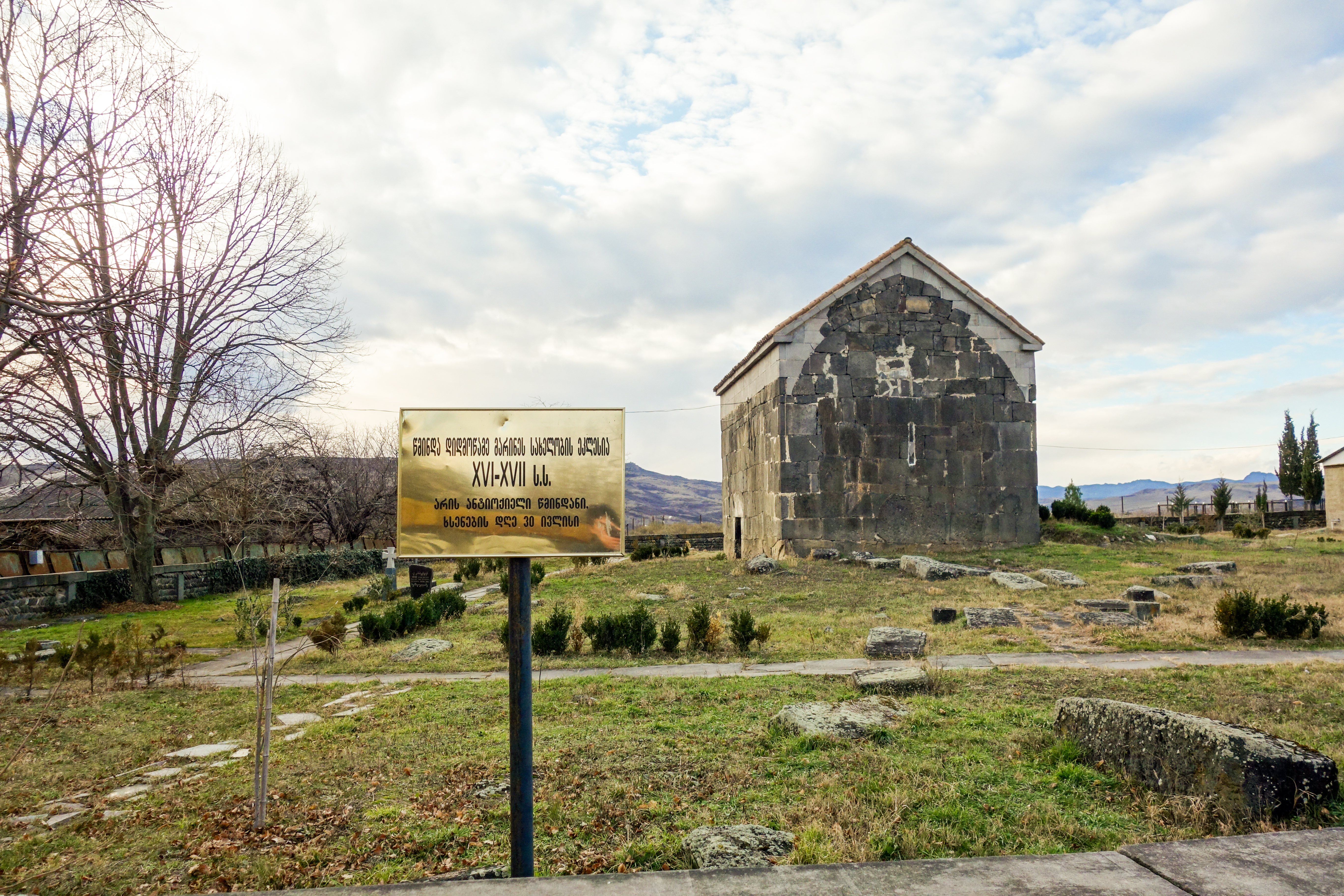 Saint Marine Church, Dzveli Marabda, Georgia